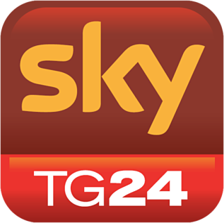 former logo of SKY TG24 and SKY TG24 (Canada)